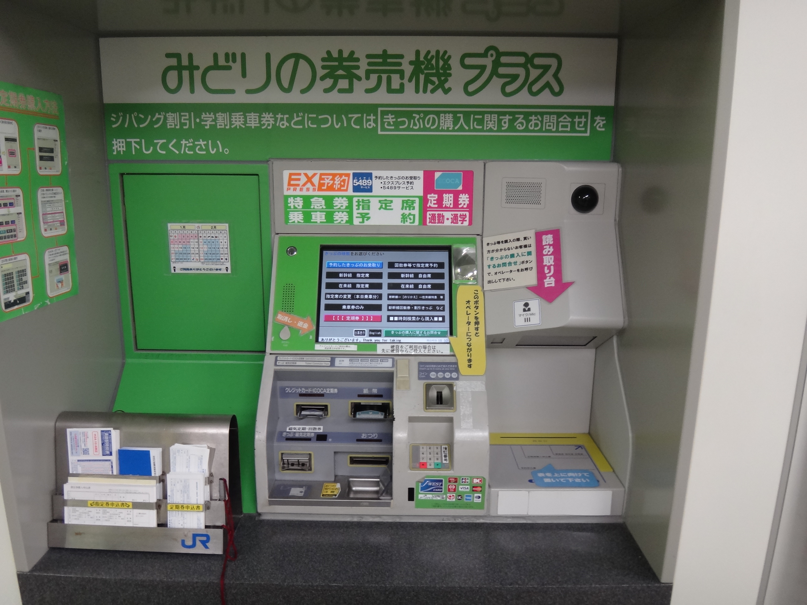 Midori no Kenbaiki Plus ticket machine at Suma Station on the Sanyo Main Line